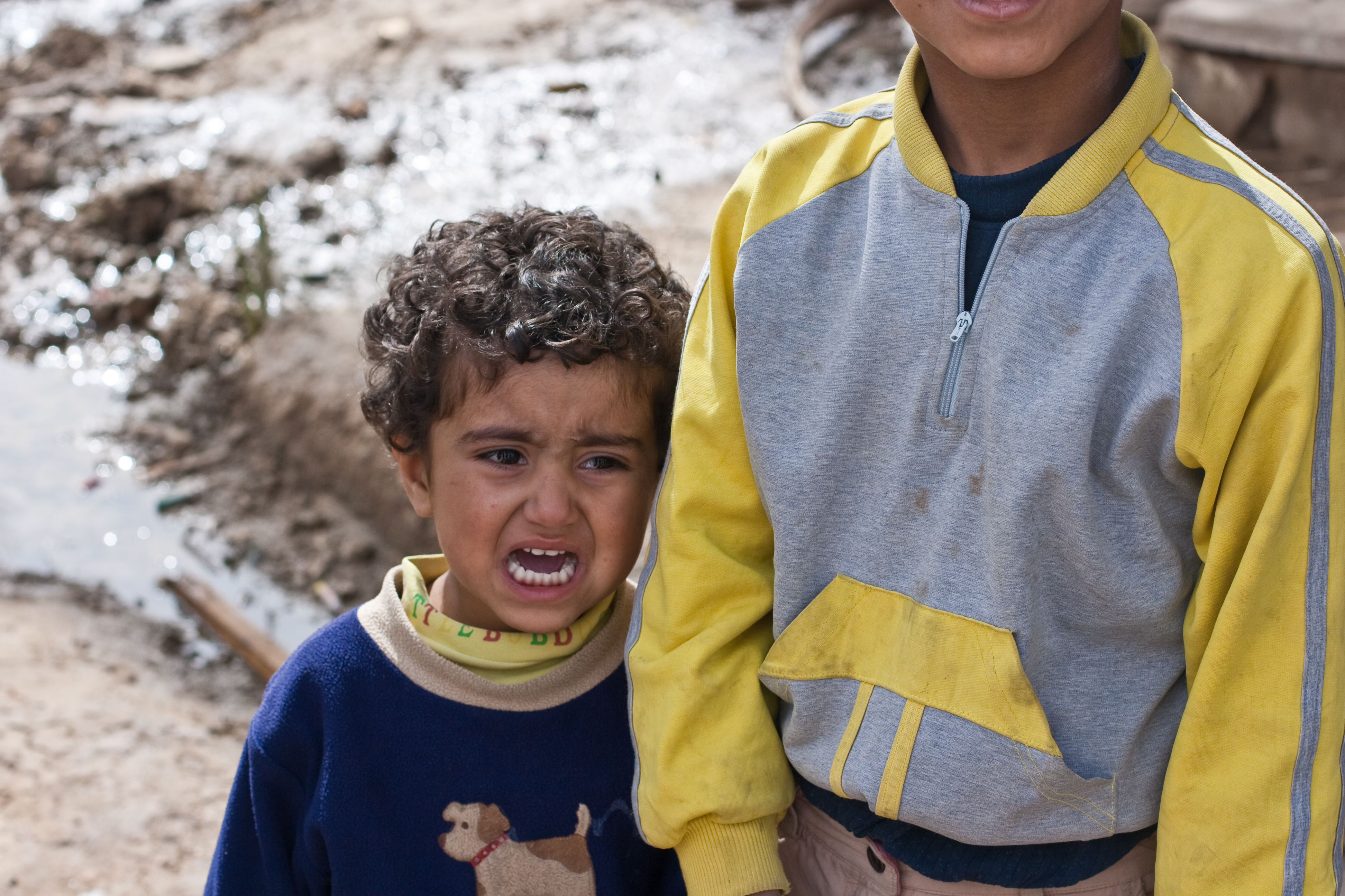 A young boy in Baghdad's Karada district, he was scared by the camera.